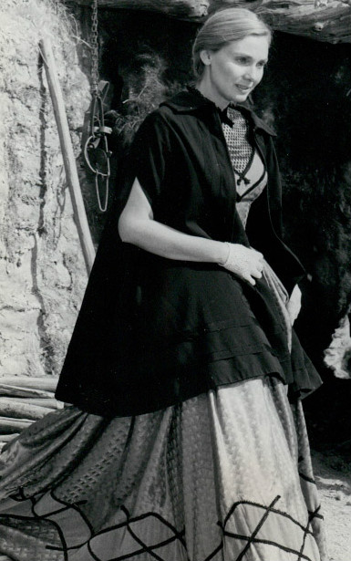 Publicity photo of Inga Swenson from the television series Sara, 1976.